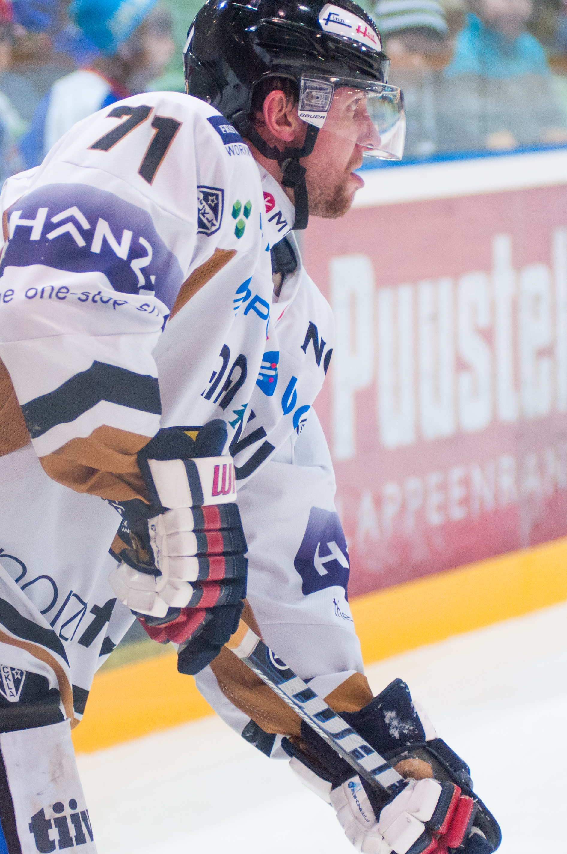 Ivan Huml of Oulun Kärpät playing against SaiPa Lappeenranta in Lappeenranta, Finland.